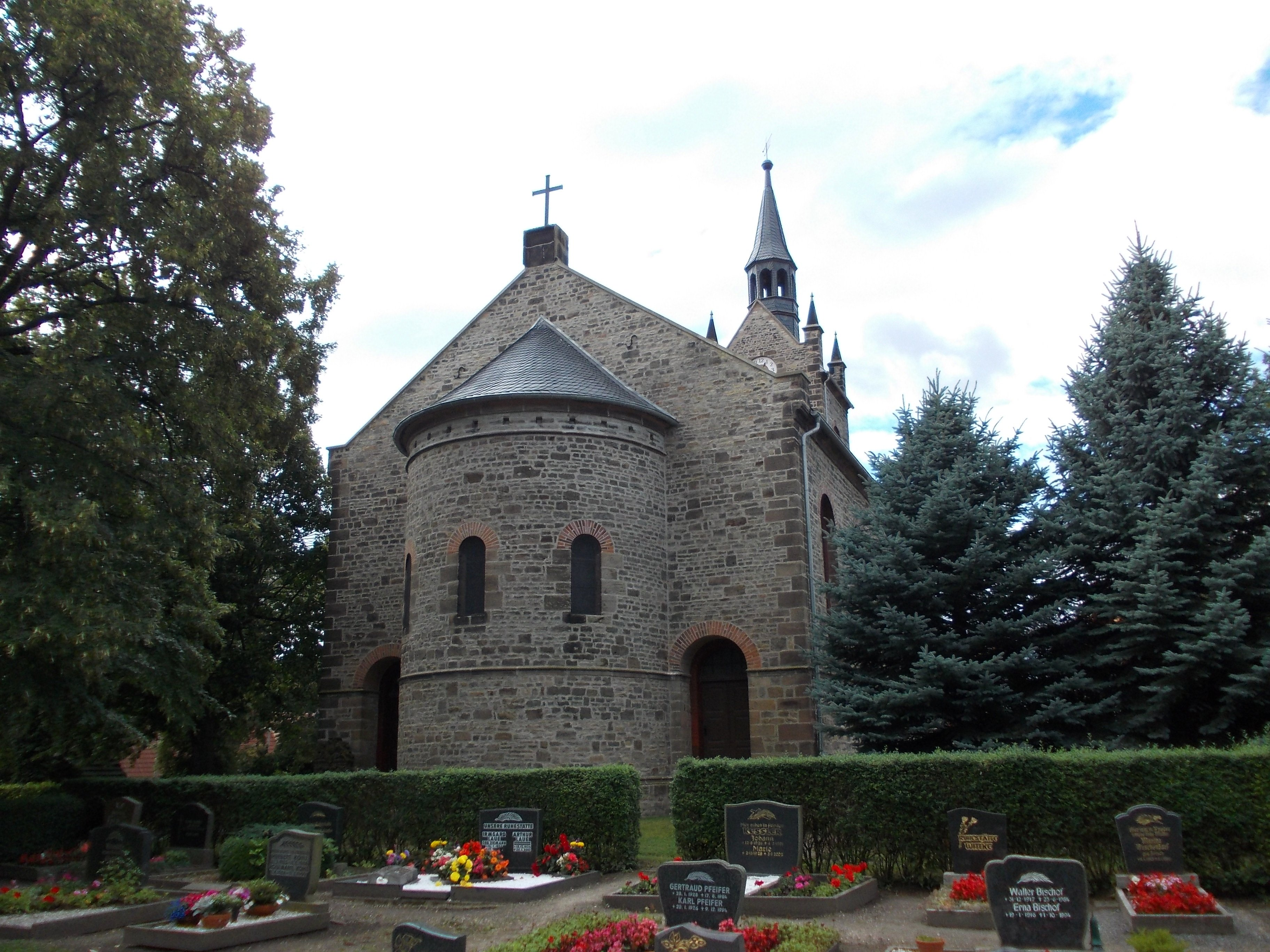 St. Mary's Church of Kriegstedt (Milzau, Bad Lauchstädt, district of Saalekreis, Saxony-Anhalt)